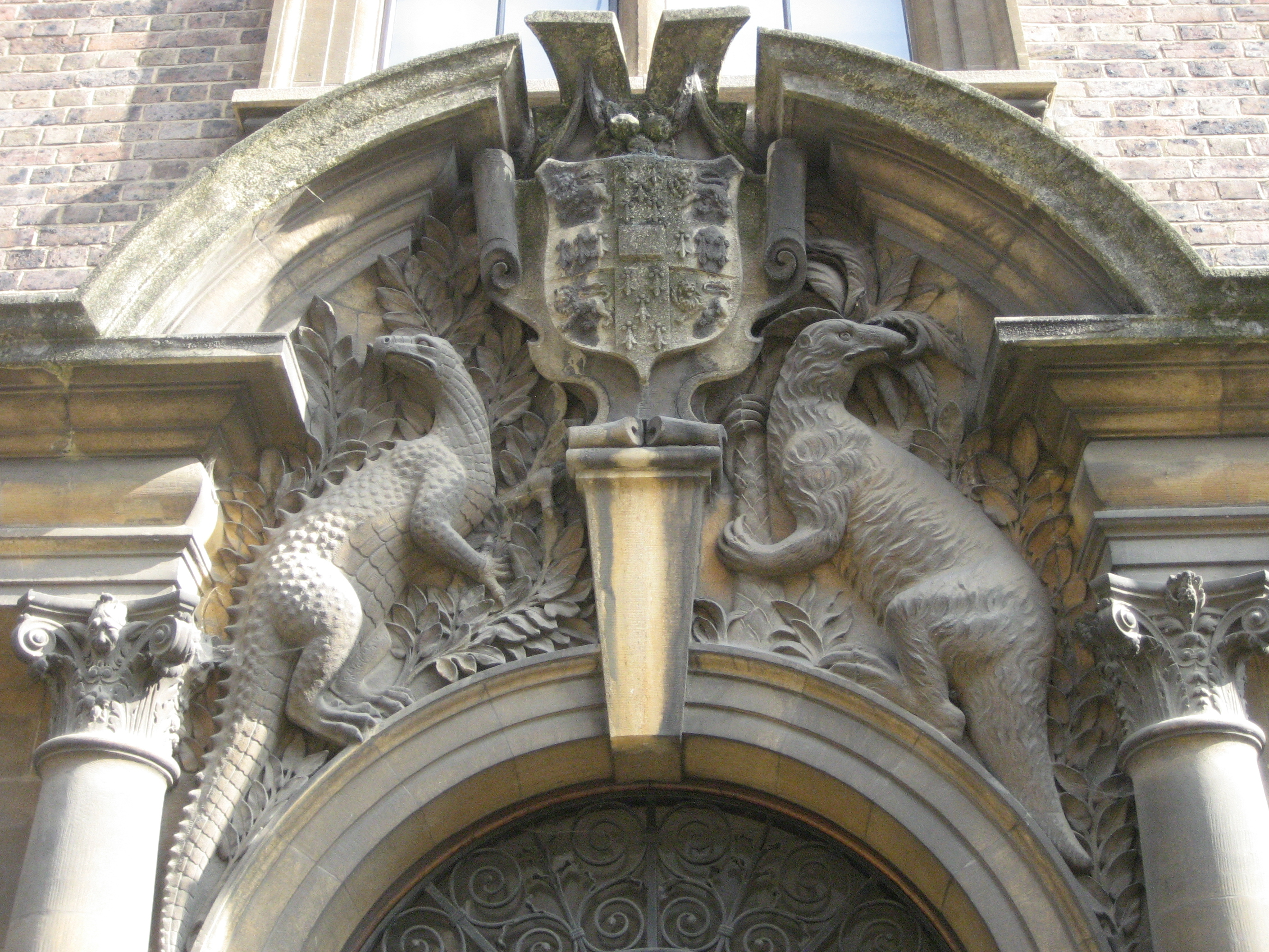 Relief of two prehistoric creatures acting as heraldic supporters to the arms of the University of Cambridge (an Iguanodon on the left of image and a Megatherium on the right) in the building of the Sedgwick Museum of Earth Sciences, University of Cambridge, Cambridge, England (UK).